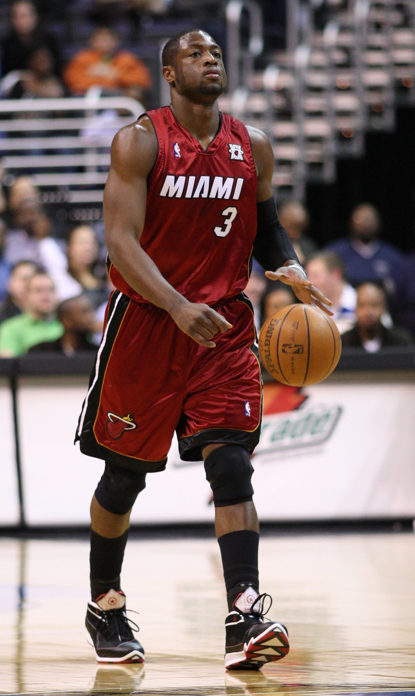 Dwyane Wade